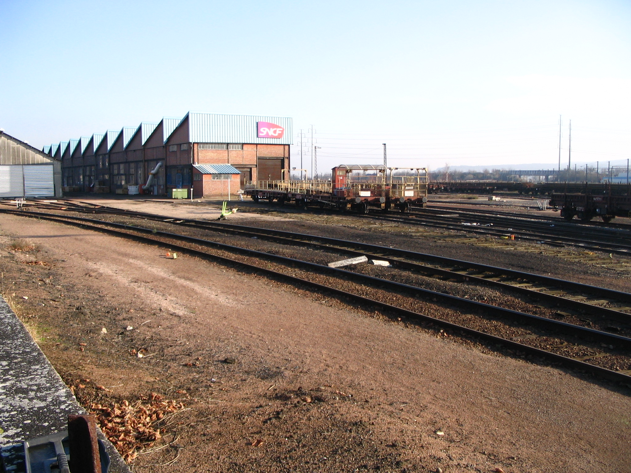 The SNCF industrial site of Moulin-Neuf, in Chambly, Oise, France.